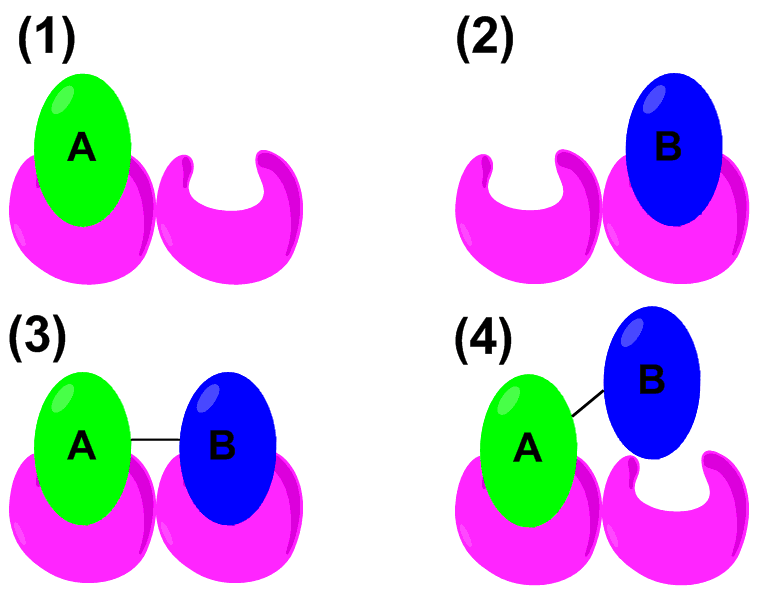 cooperativity 3